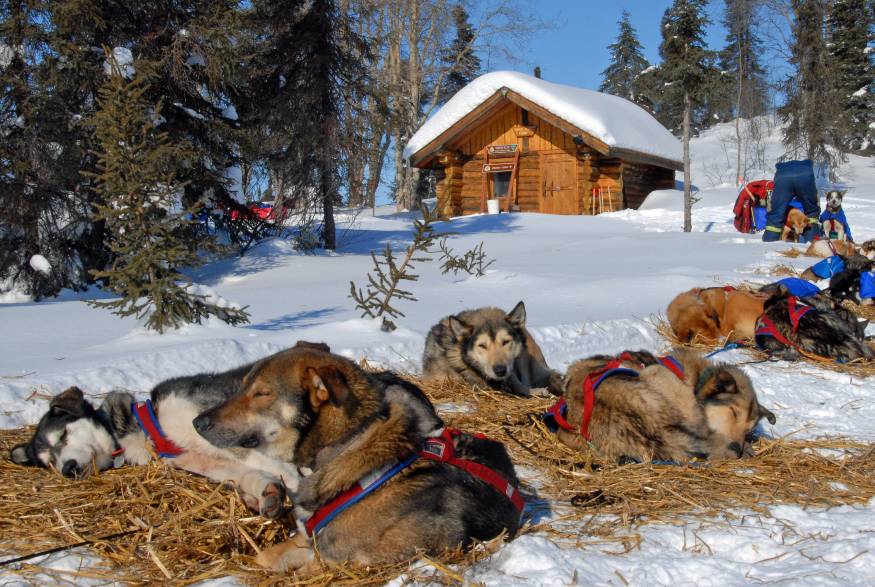 While the Iditarod National Historic Trail is best known for dog mushing, a century ago more people walked on the winter trail than used a dogsled. Shipments of gold and mail frequented the trail for the decade before WWI, but unless you had your own sleddog team or $180 dollars for a one way ride (big money at time when the going wage was $2.00 dollars a day), you walked! The walk was made possible by a system of roadhouses and shelter cabins located about a day’s journey apart—20 to 30 miles, and wooden tripods to mark the trail over treeless tundra. The typical journey was 20 to 25 days between the gold rush town of Iditarod and one of the tidewater ports on the southcentral coast of Alaska. Today the trail is still in use as an overland travel route between Alaskan communities, and as a venue for modern-day adventurers testing their mettle in some of the wildest country in North America: Shelter cabins still provide refuge for trail travelers, and tripods still mark the way across the winter landscape, all maintained in partnerships between volunteers and public land managers.